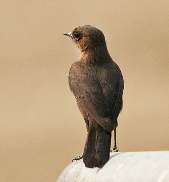 Brown Rock Chat (Cercomela fusca) at/ near Hodal in Faridabad District of Haryana, India.